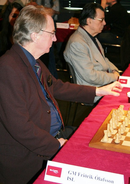 Grandmasters Fridrik Olafsson and Pal Benko took part in a special memorial tournament for Bobby Fischer. Reykjavik, Iceland, March 2008.